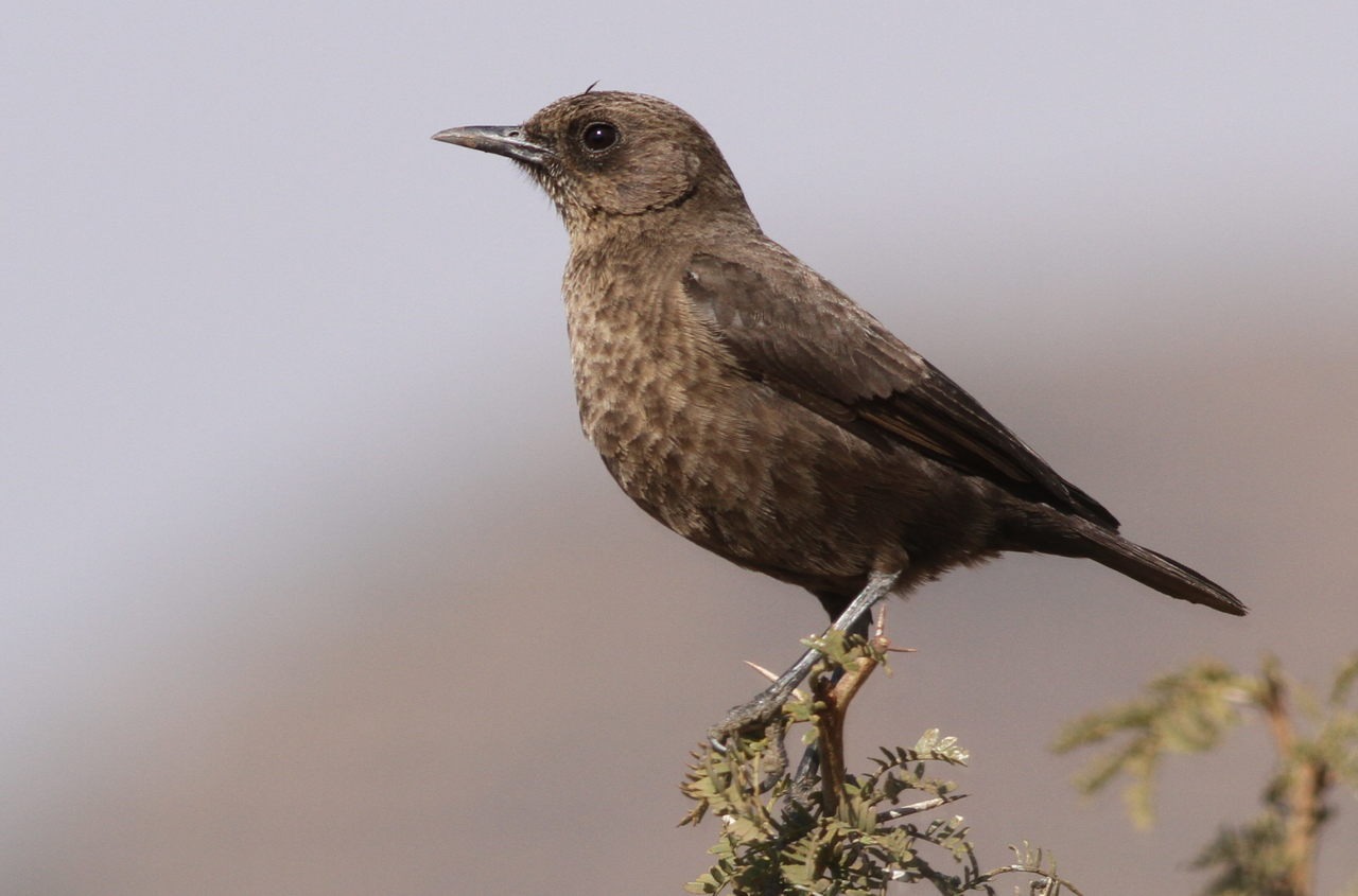 at Suikerbosrand Nature Reserve, Gauteng, South Africa